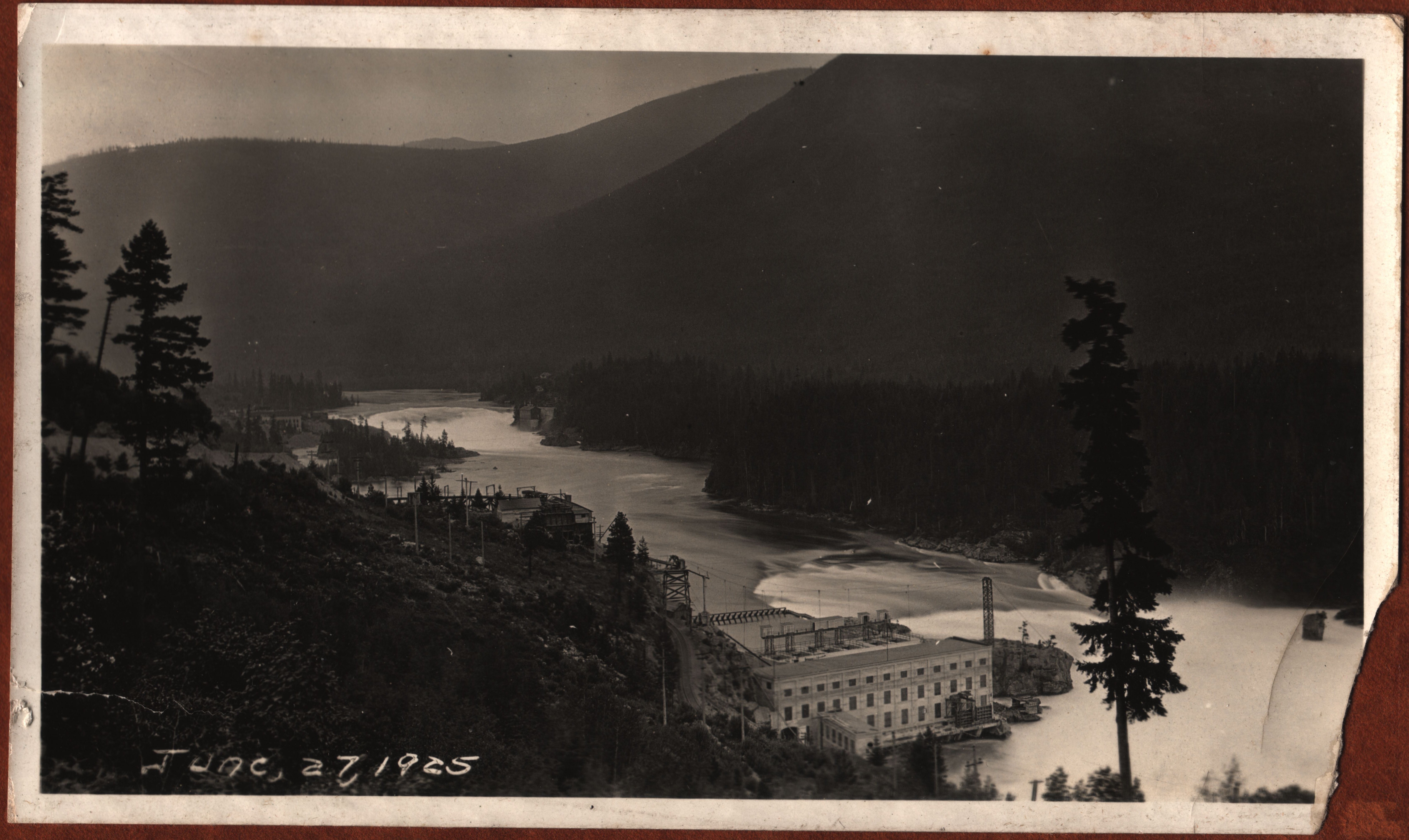 Lower Bonnington Falls Power House in 1925